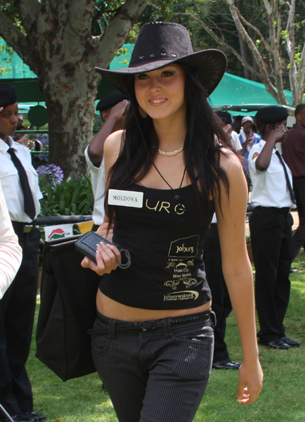 Miss Moldova 2008 Iana Varnacova during Miss World 08